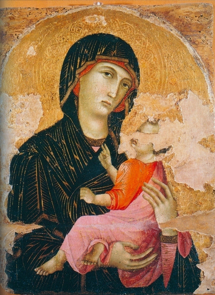 Badia a Isola Master, Madonna and Child, ca. 1280, Siena, Pinacoteca, cat. no. 593